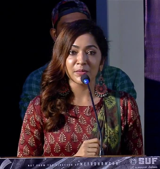 Ramya Subramanian Speech at 'Aadai' Trailer Launch